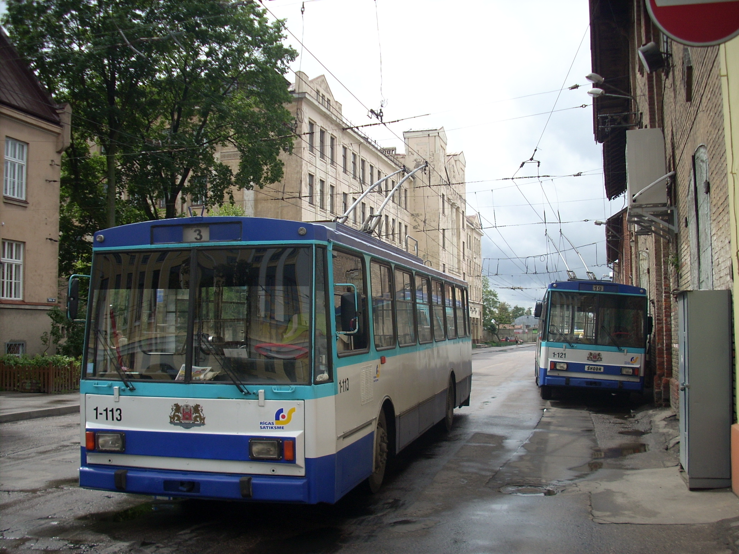 Tagged with Latvia, Riga, trolleybus. Taken on July 23, 2007, uploaded July 24, 2007. Taken in Rigas Rajons, LV